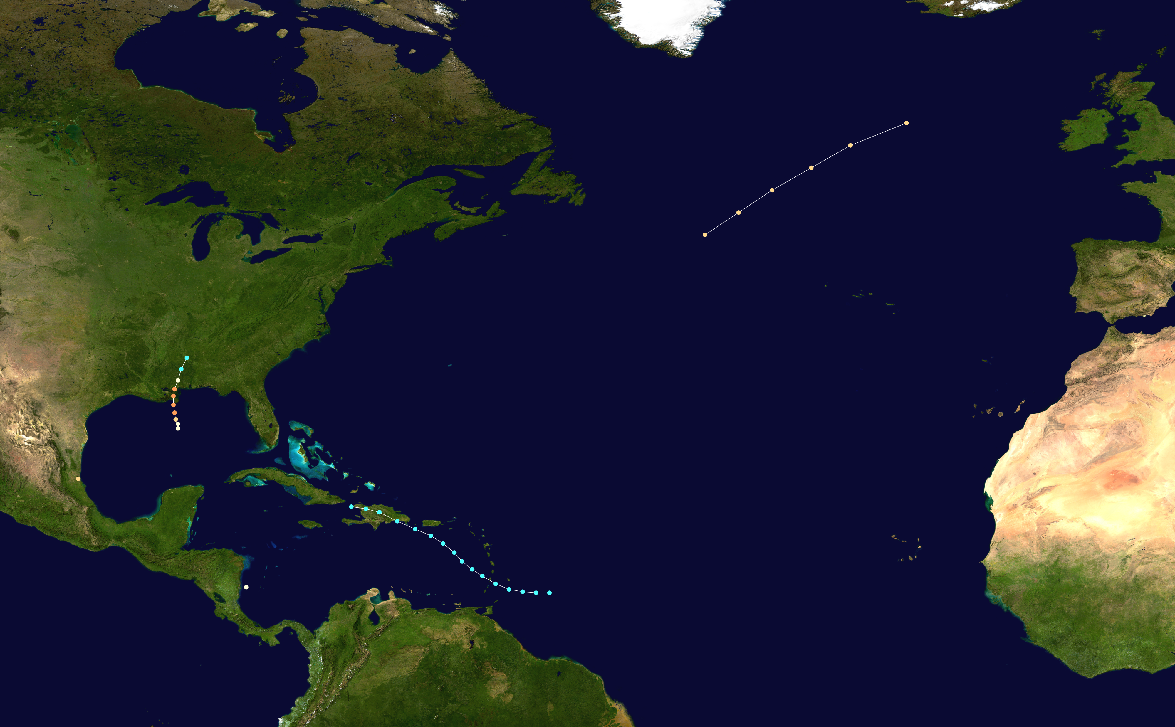 This map shows the tracks of all tropical cyclones in the 1855 Atlantic hurricane season. The points show the location of each storm at 6-hour intervals. The colour represents the storm's maximum sustained wind speeds as classified in the Saffir-Simpson Hurricane Scale (see below), and the shape of the data points represent the type of the storm. Saffir–Simpson scale Tropical depression≤38 mph≤62 km/h Category 3111–129 mph178–208 km/h Tropical storm39–73 mph63–118 km/h Category 4130–156 mph209–251 km/h Category 174–95 mph119–153 km/h Category 5≥157 mph≥252 km/h Category 296–110 mph154–177 km/h Unknown Storm type Tropical cyclone Subtropical cyclone Extratropical cyclone / Remnant low / Tropical disturbance / Monsoon depression